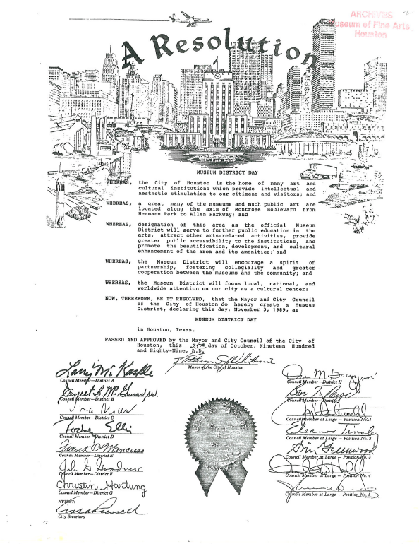 City of Houston Resolution officially recognizing the Museum District of Houston and naming October 18 "Museum District Day"